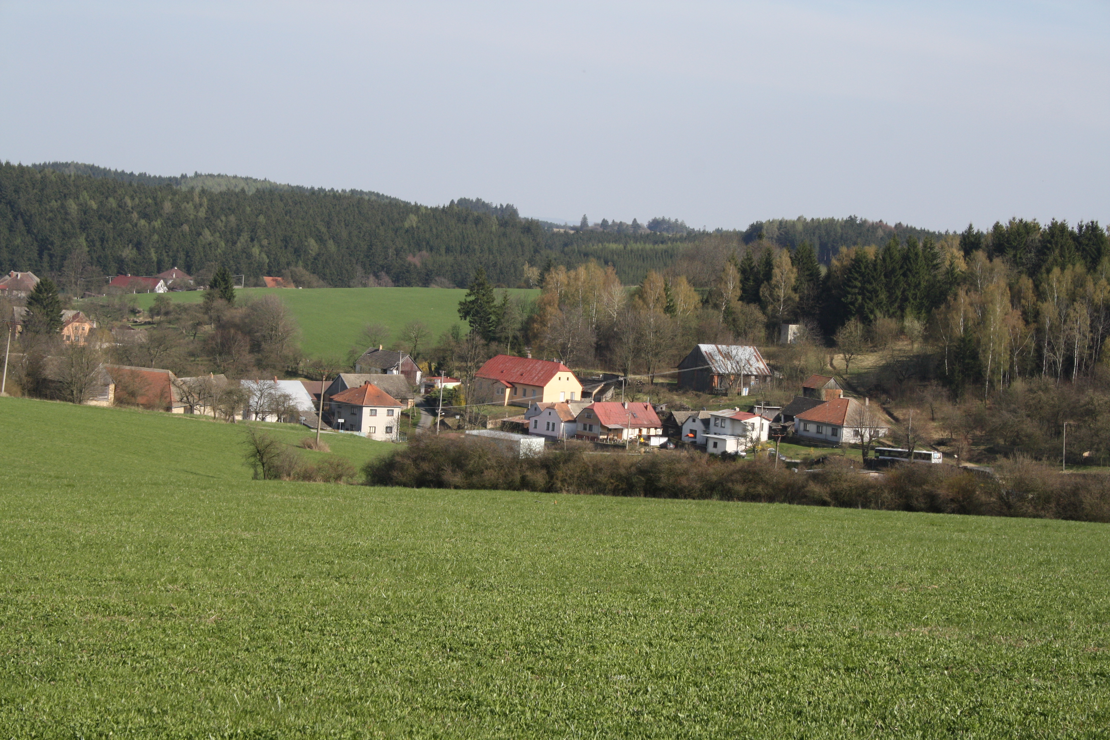 Radonín overview.